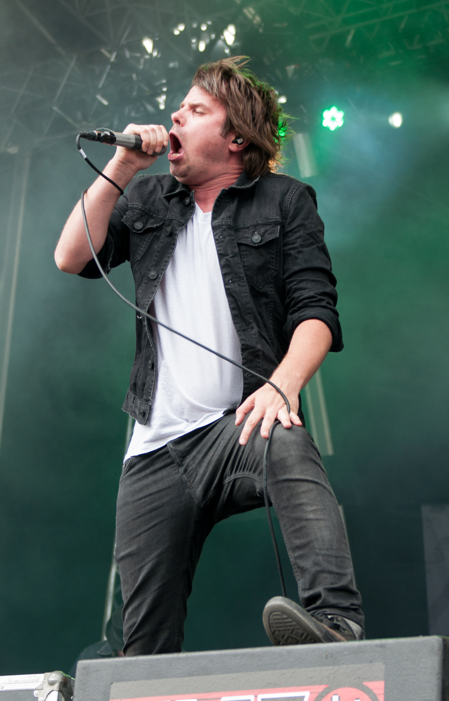 Silverstein at Vainstream Rockfest 2014